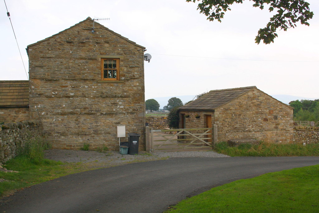 Pippy Oak Barn